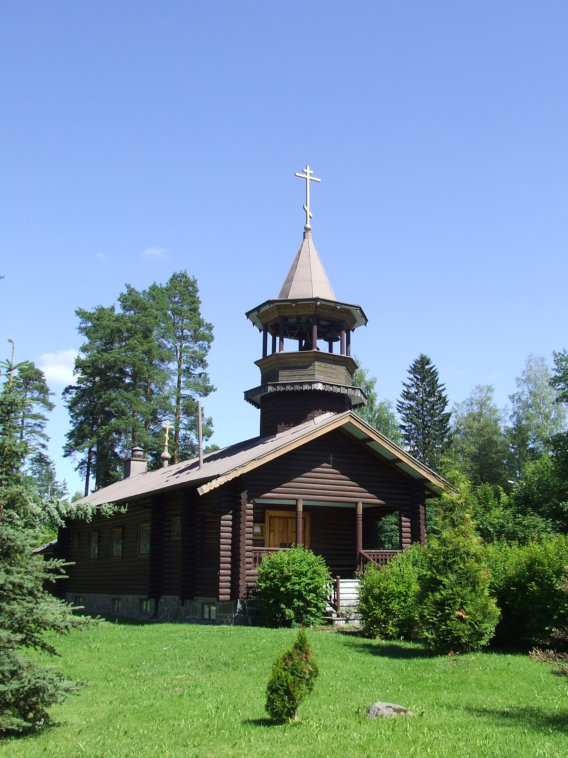 The orthodox chapel in Myllykoski, Kouvola, Finland.